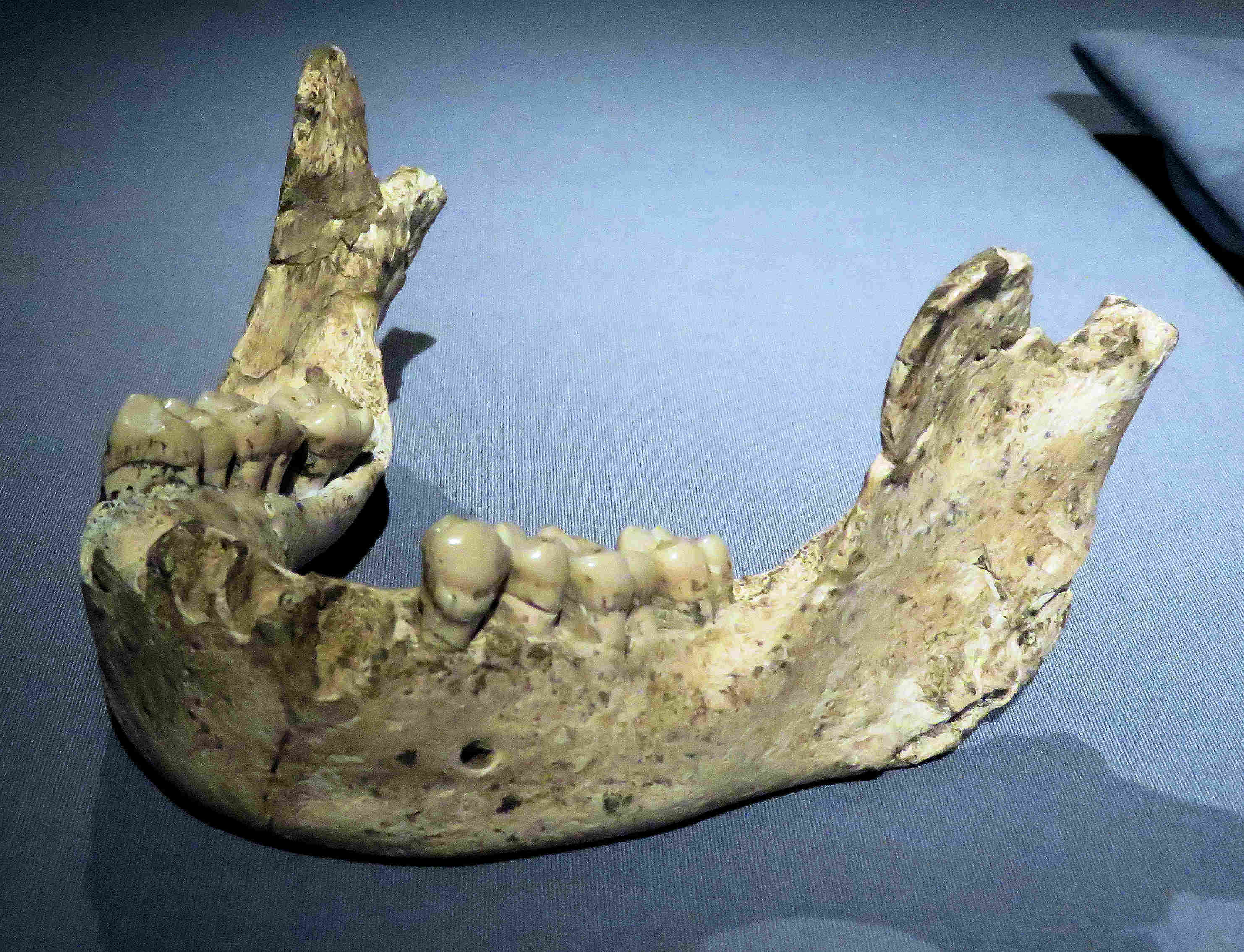 Dmanisi mandible D 2735 (original)